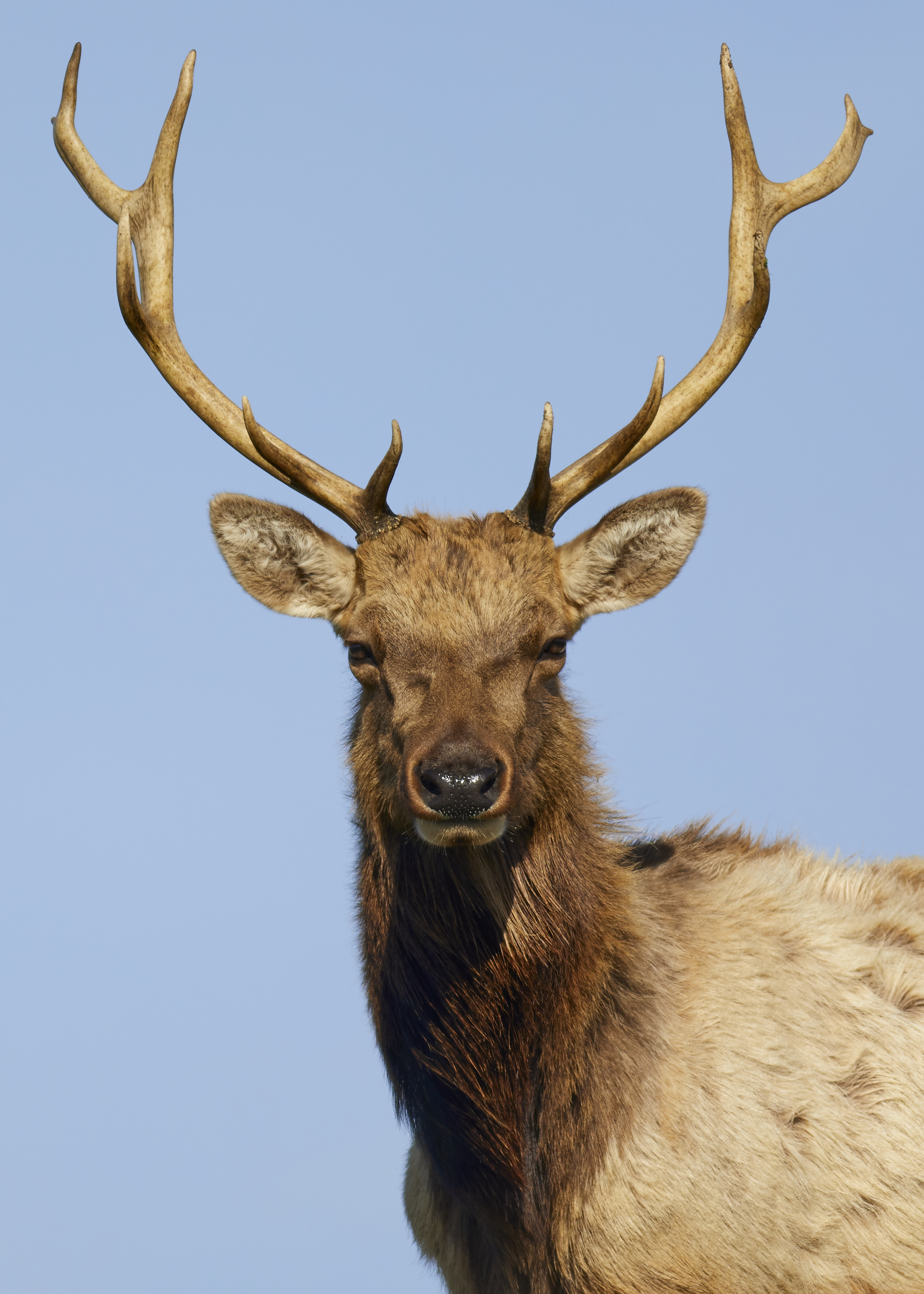 Frontal profile of a dominant tule elk bull (Cervus canadensis nannodes) near Tomales Point Trail at Point Reyes National Seashore, Marin County, in late December 2018